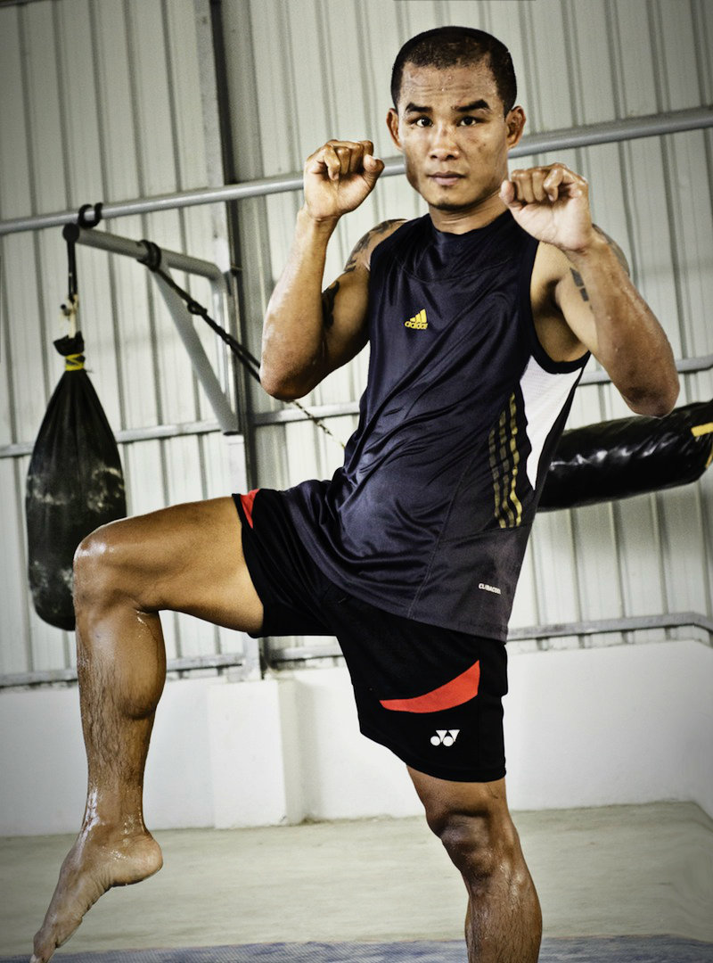 Myanmar Lethwei Champion